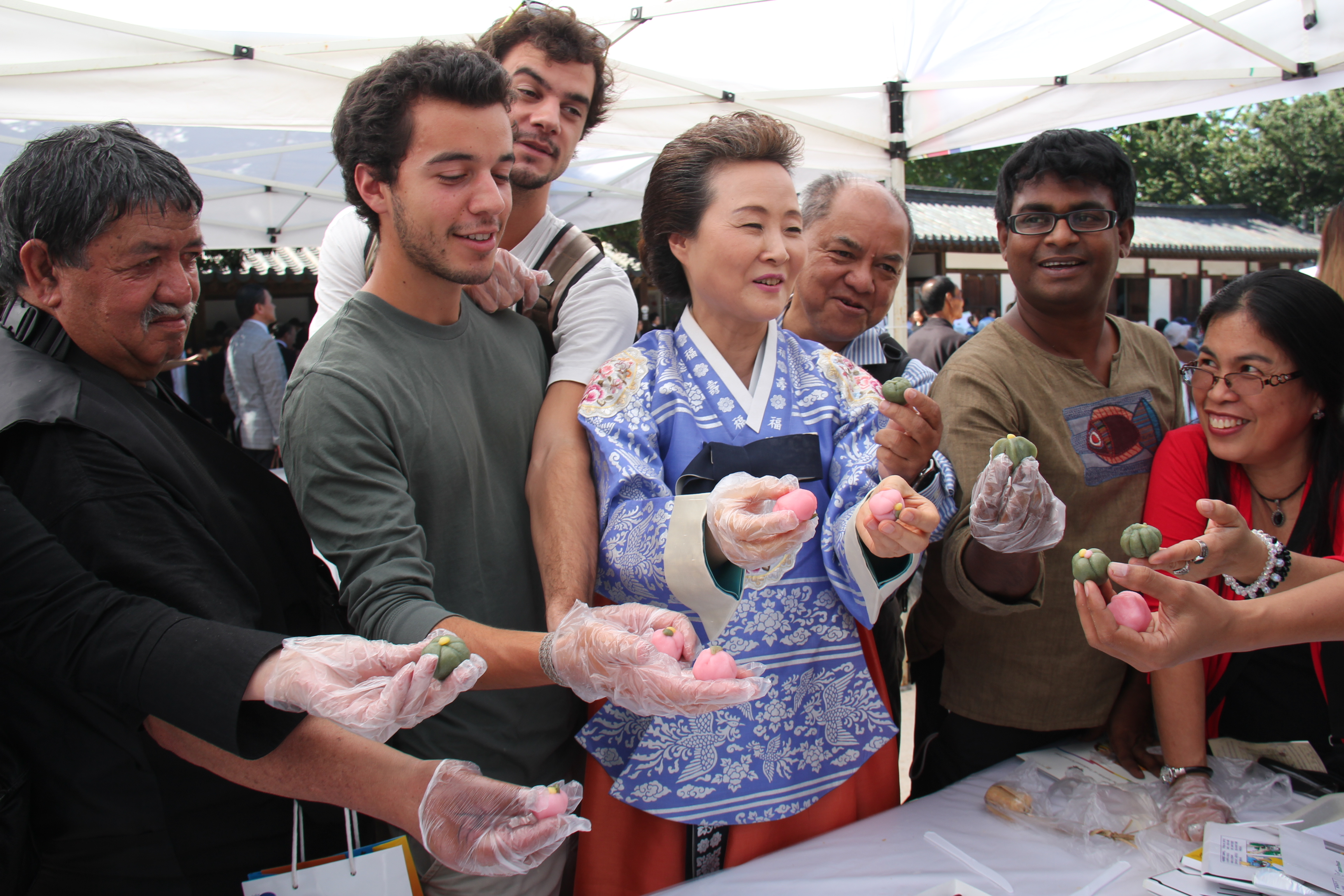 Foreign visitors try to make tteok.